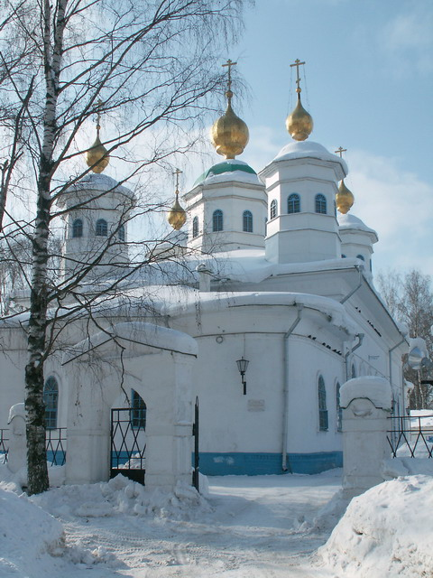 Voskresensky Cathedral in Cherepovets (former Voskresensky Cherepovetsky Monastery)